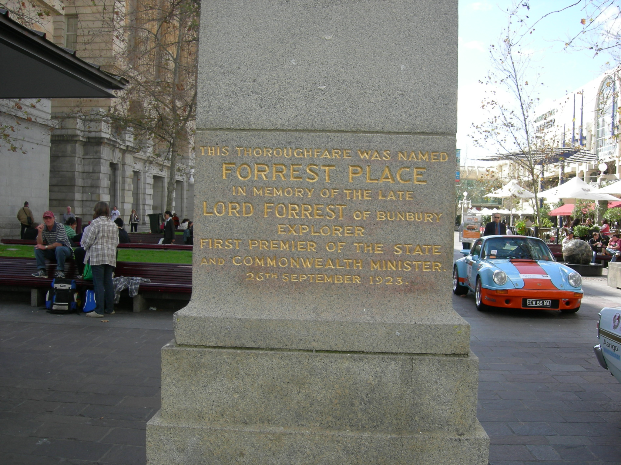 Forrest Place name plaque on Murray Street, Perth, Western Australia